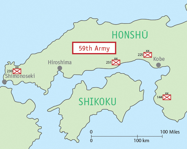 Field of operation of IJA 59th army, 1945